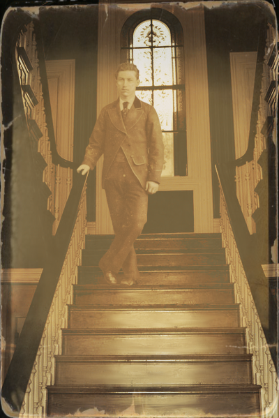 Tintype, circa 1867. 224 Cornelius Ave, Russellville, KY